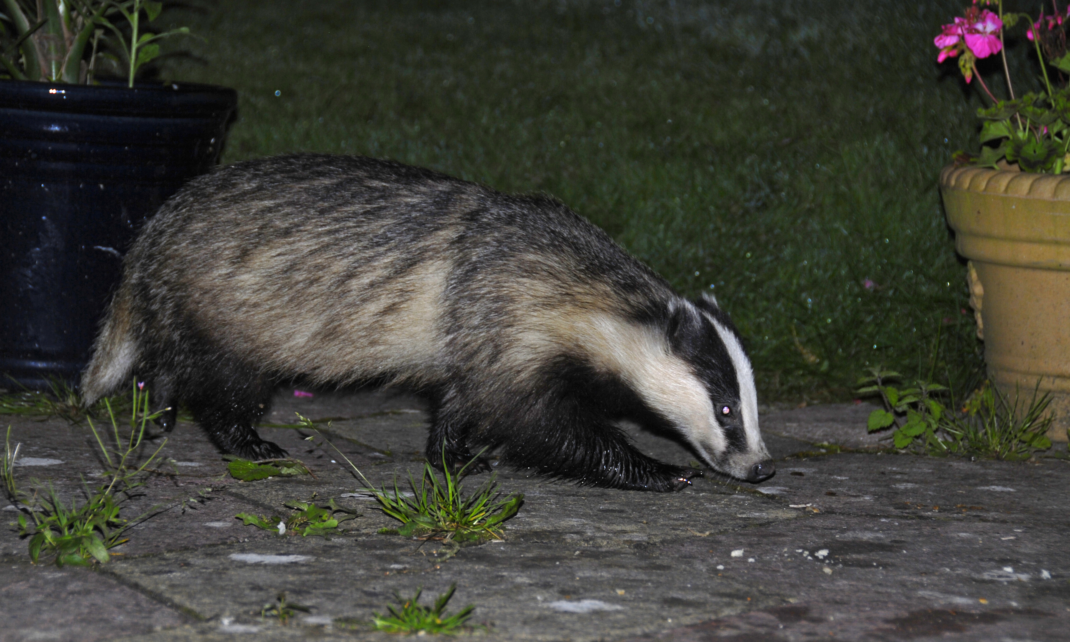 Badger eating stale donuts left just a couple of feet from open patio doors. The badger was only a few feet away from me, incredible. The badger didn't seem to be bothered by the flash either. Bixhill, Surrey, England.